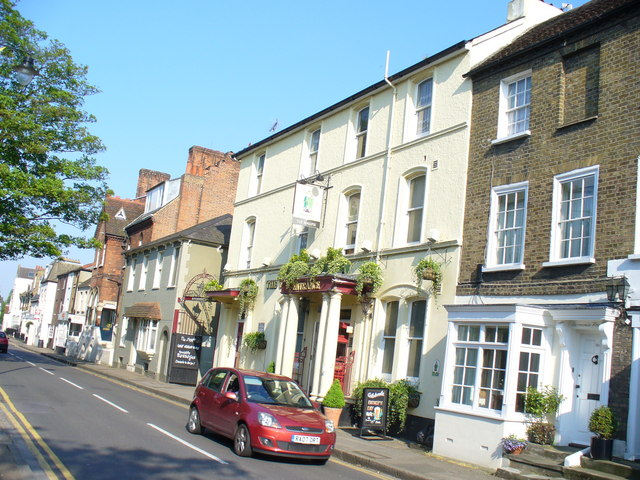 The Magpie Hotel, Thames Street. The hotel was opened in 1820 but today it is a very popular riverside pub. It is famous for being the birthplace of The Grand Order of Water Rats.